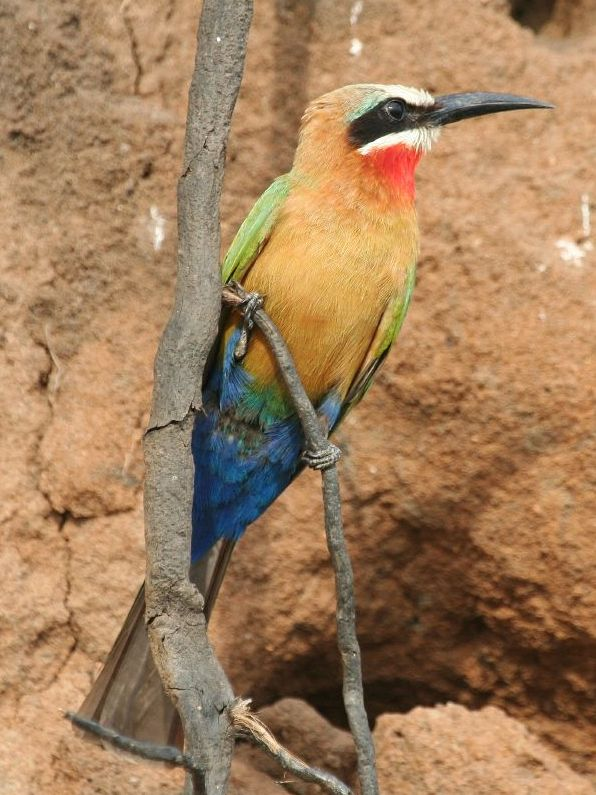 White-fronted Bee-Eater in Selous, Tanzania August 2006